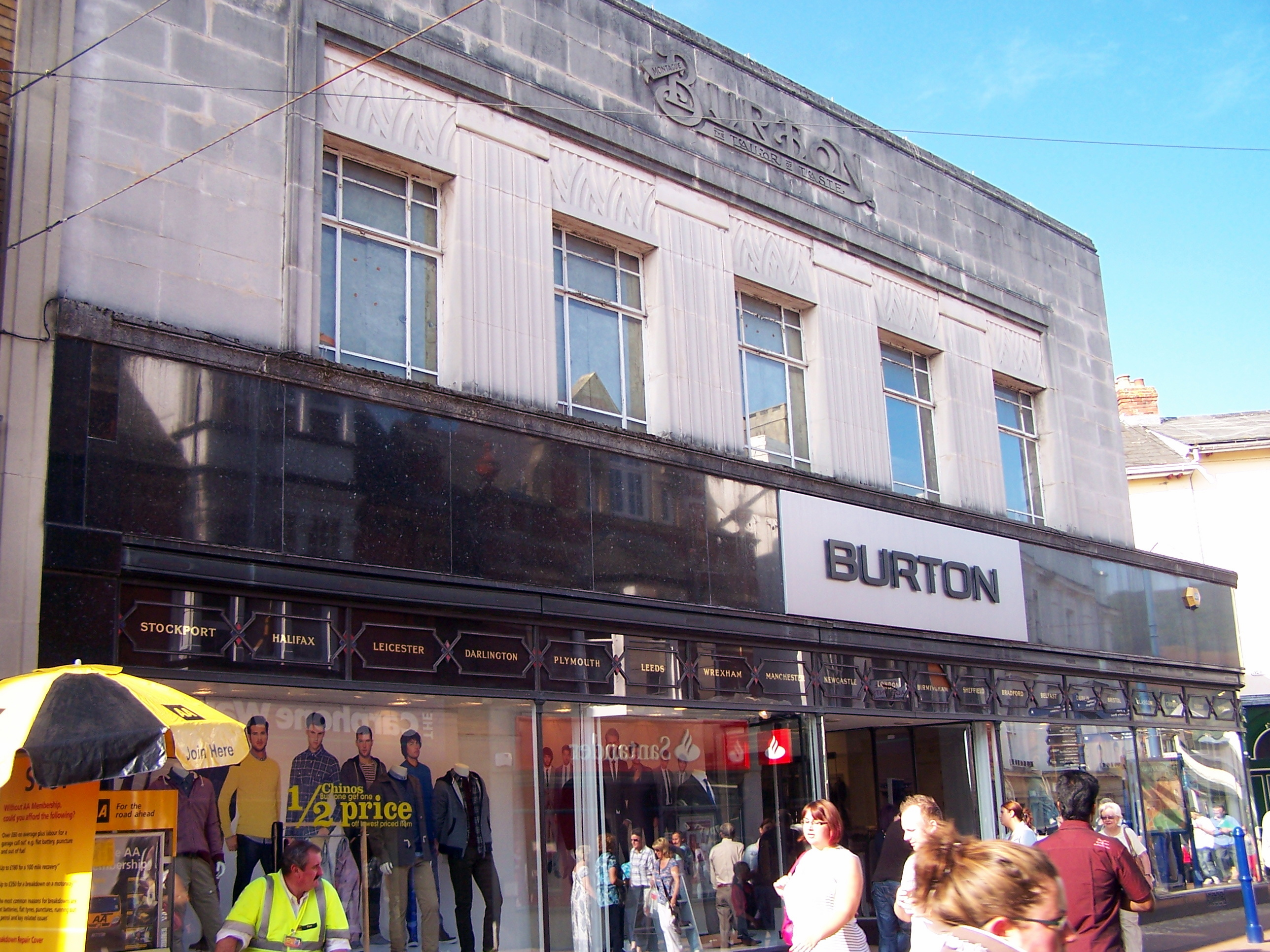 Art Deco Burton shop in Abergavenny, South Wales